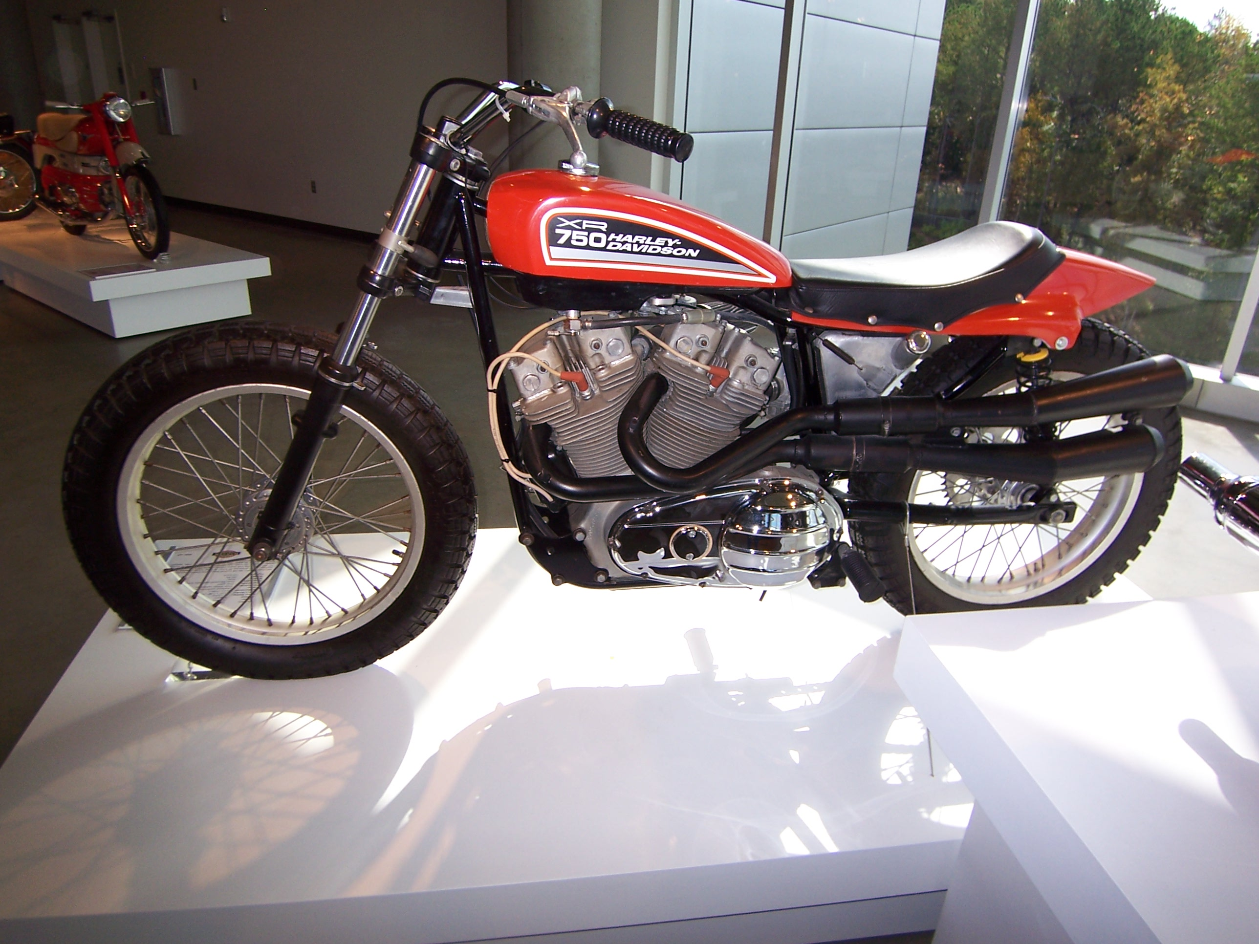 Barber Motorcycle Museum - Oct 22 2006 (639) 1980 Harley-Davidson XR750 / More description is here